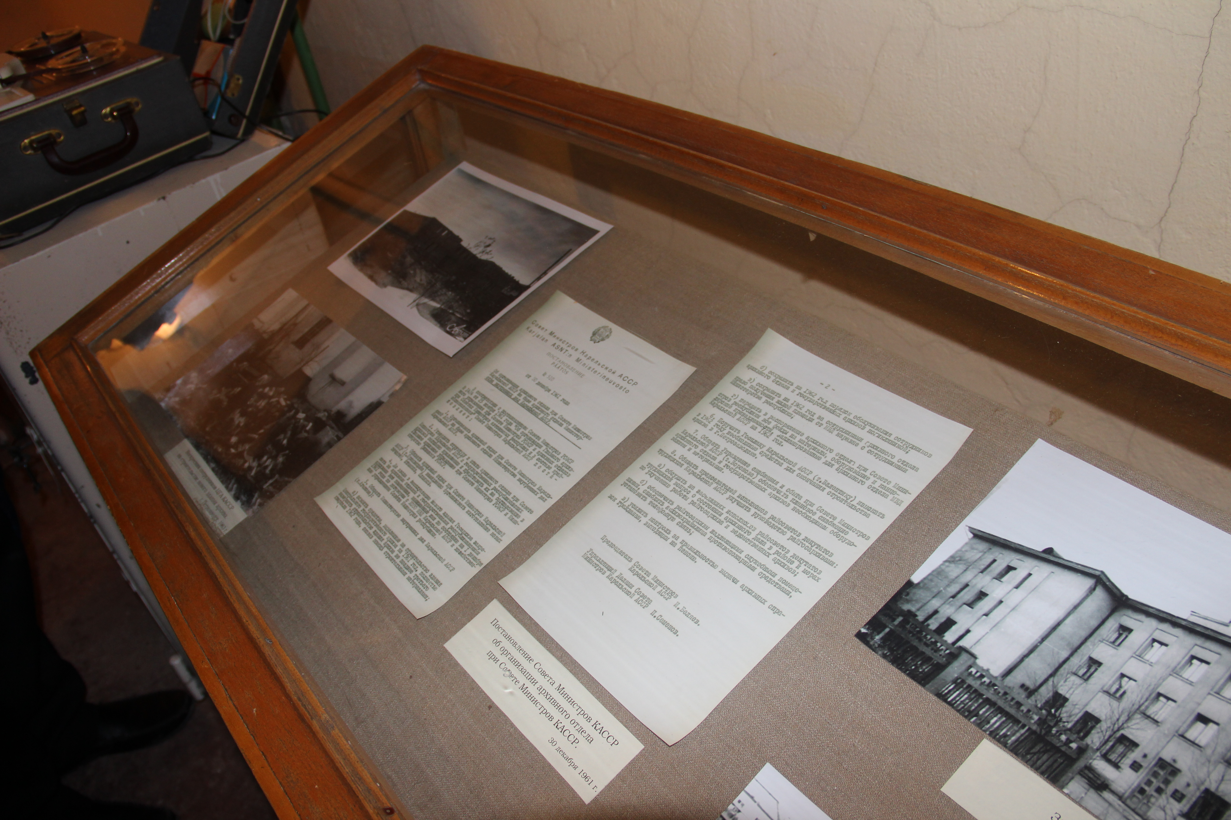 Template:Olo